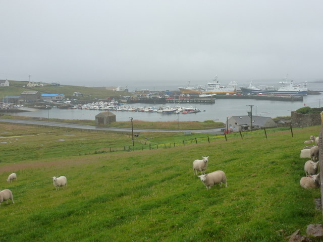 Symbister: sheep above the harbour